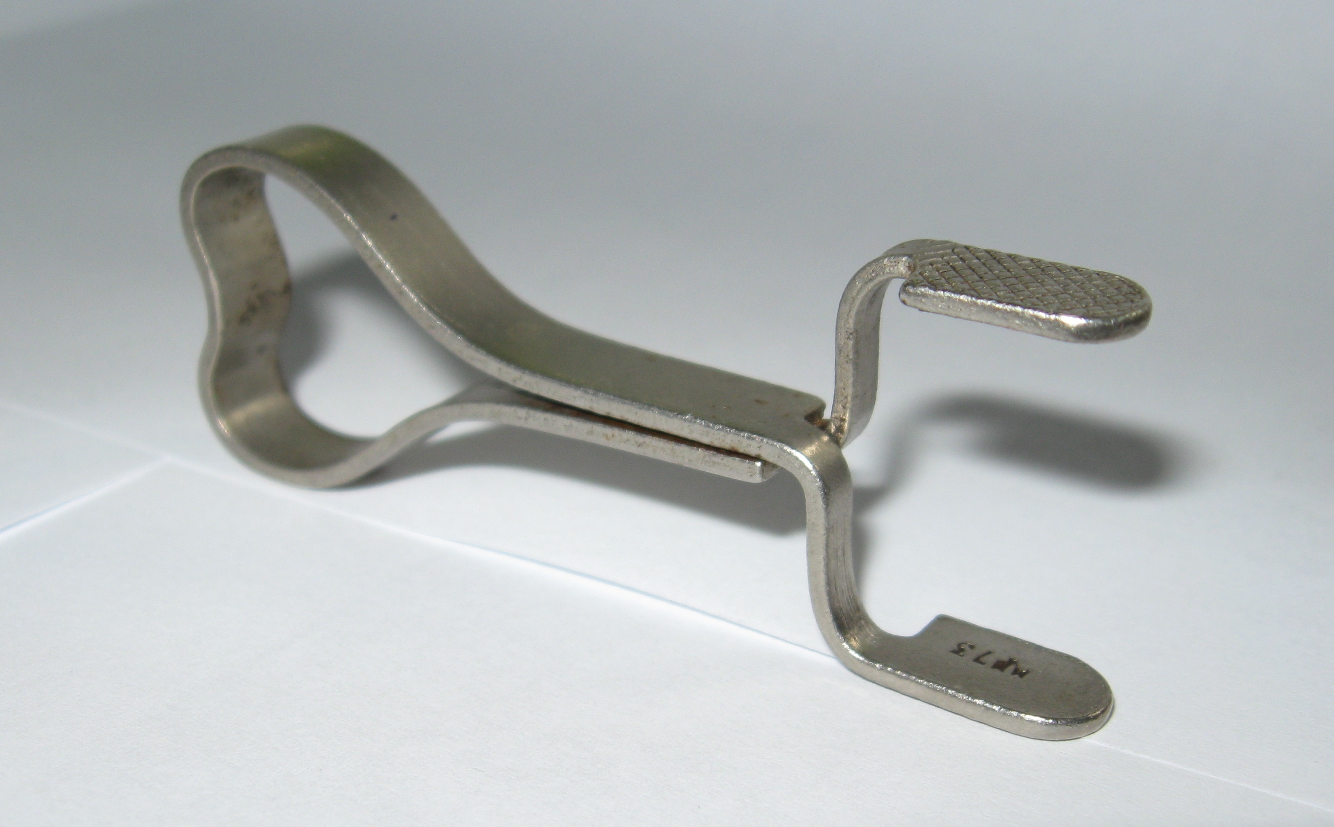 Mohr's clamp (Mohr's clip)